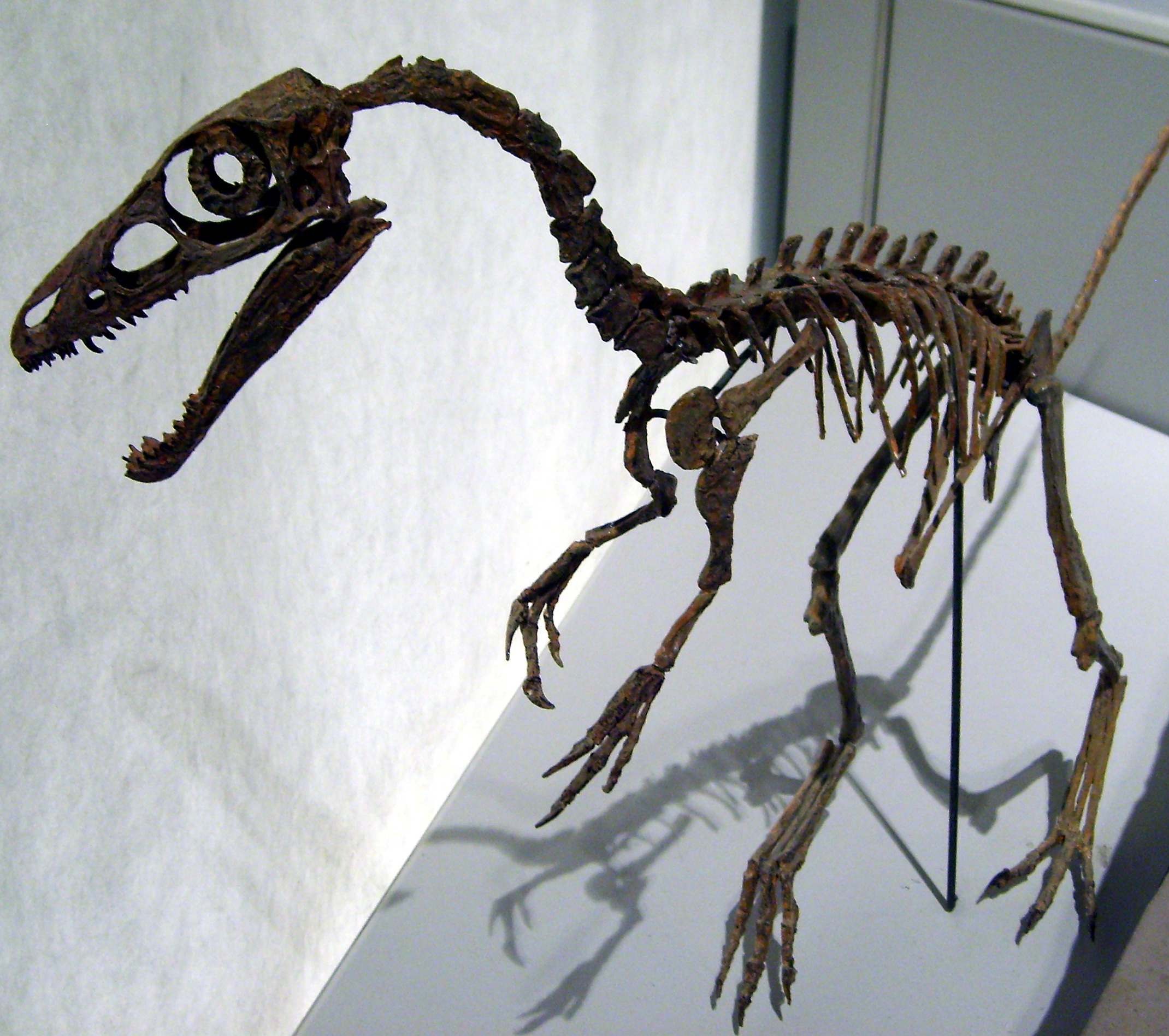 Cast of the skeleton belonging to GMV 2124, formerly classified as Sinosauropteryx, Zoological Museum, Copenhagen.